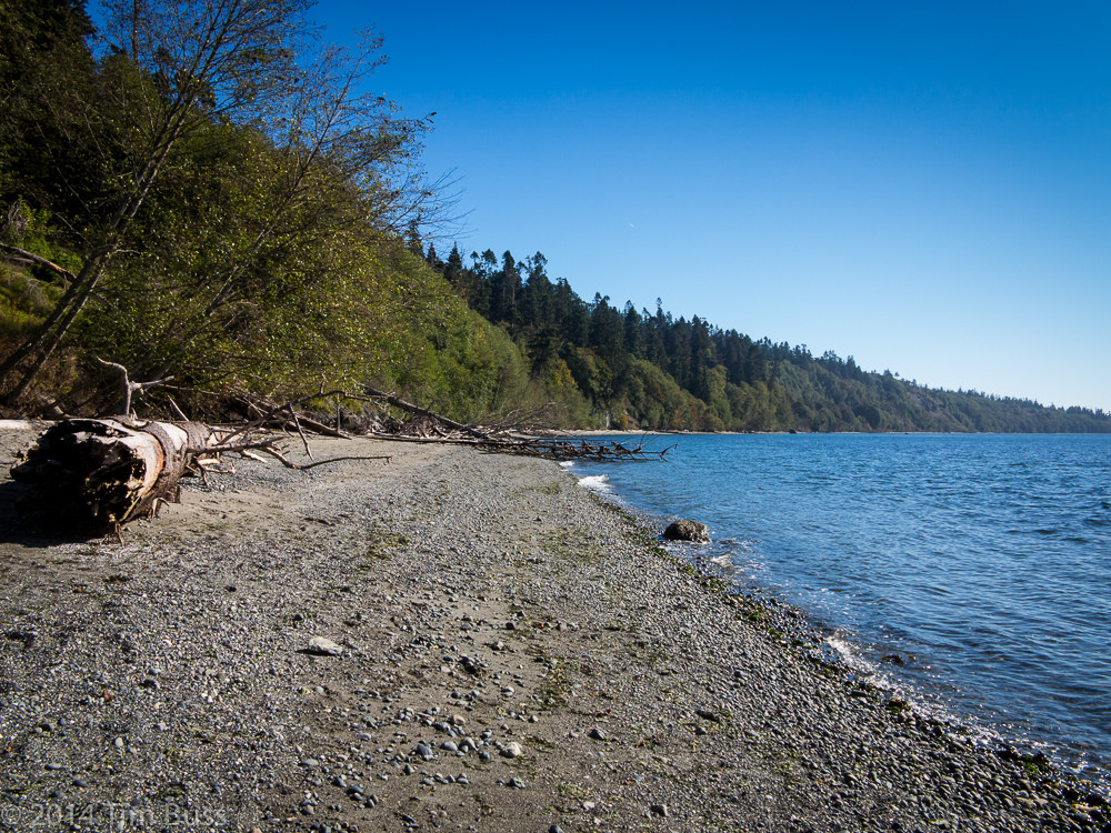 Beach at South Whidbey State Park, Whidbey Island, WA